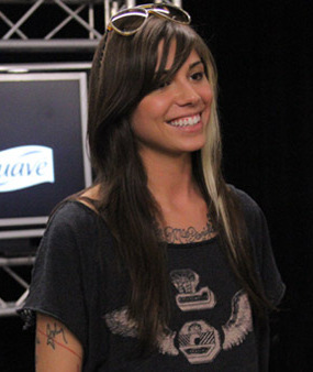 The "Jar of Hearts" singer Christina Perri sits down with Walmart Risers for an interview about her music